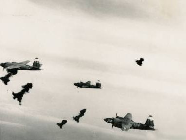 B-26s of the 323rd Bombardment Group taking flak over France in 1944